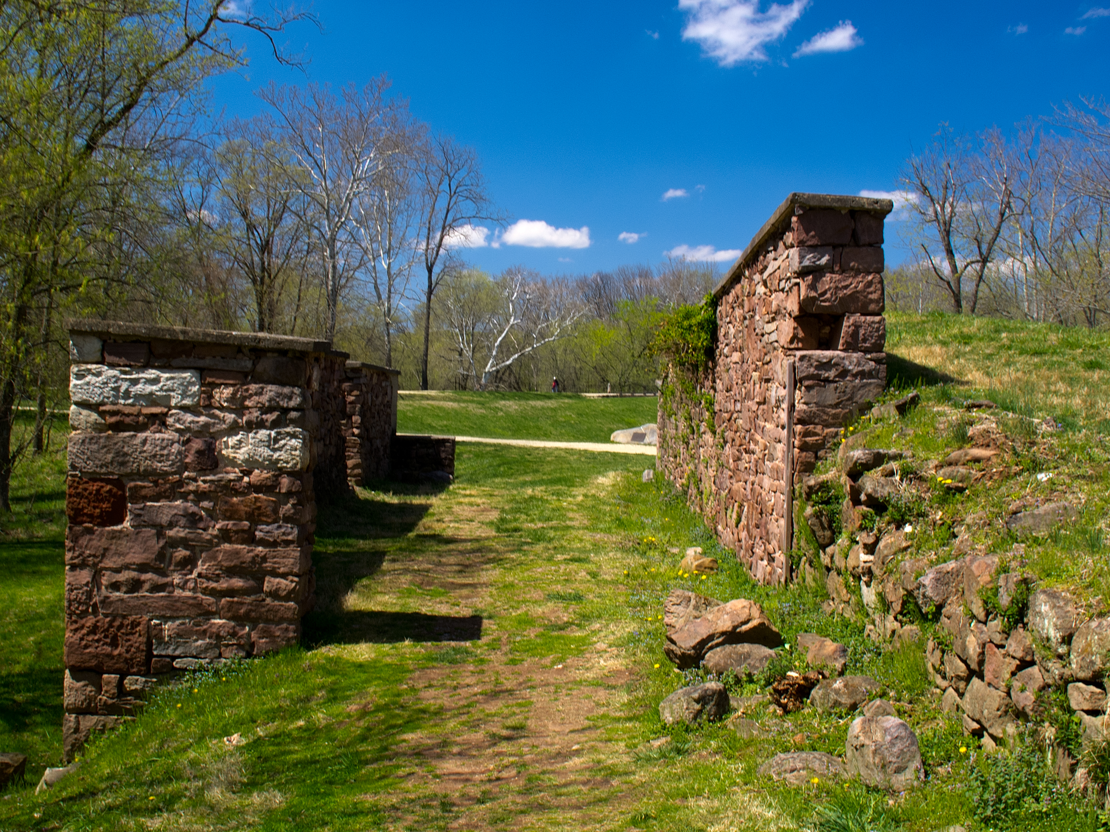 Ruins of granary at Monocacy Aqueduct along Chesapeake and Ohio Canal. See NPS brochure Granaries at Whites Ferry and Monocacy Village. Brochure states that granary was 51 feet long by 20 feet wide, and only one story. It had 2 passageways for boat access, and three storage bays for grain.